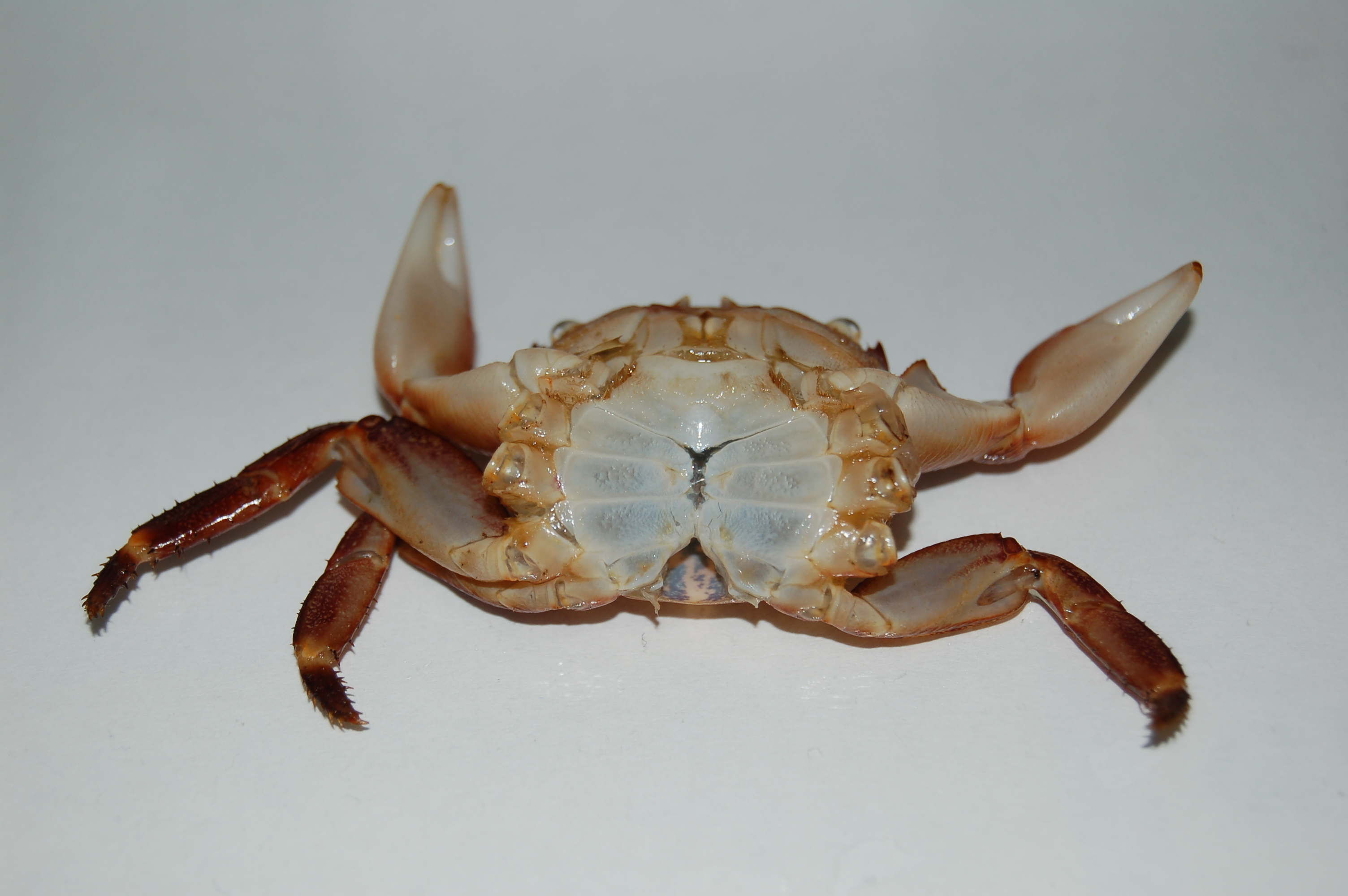 Ecdysis of Pachygrapsus crassipes(Striped shore crab).